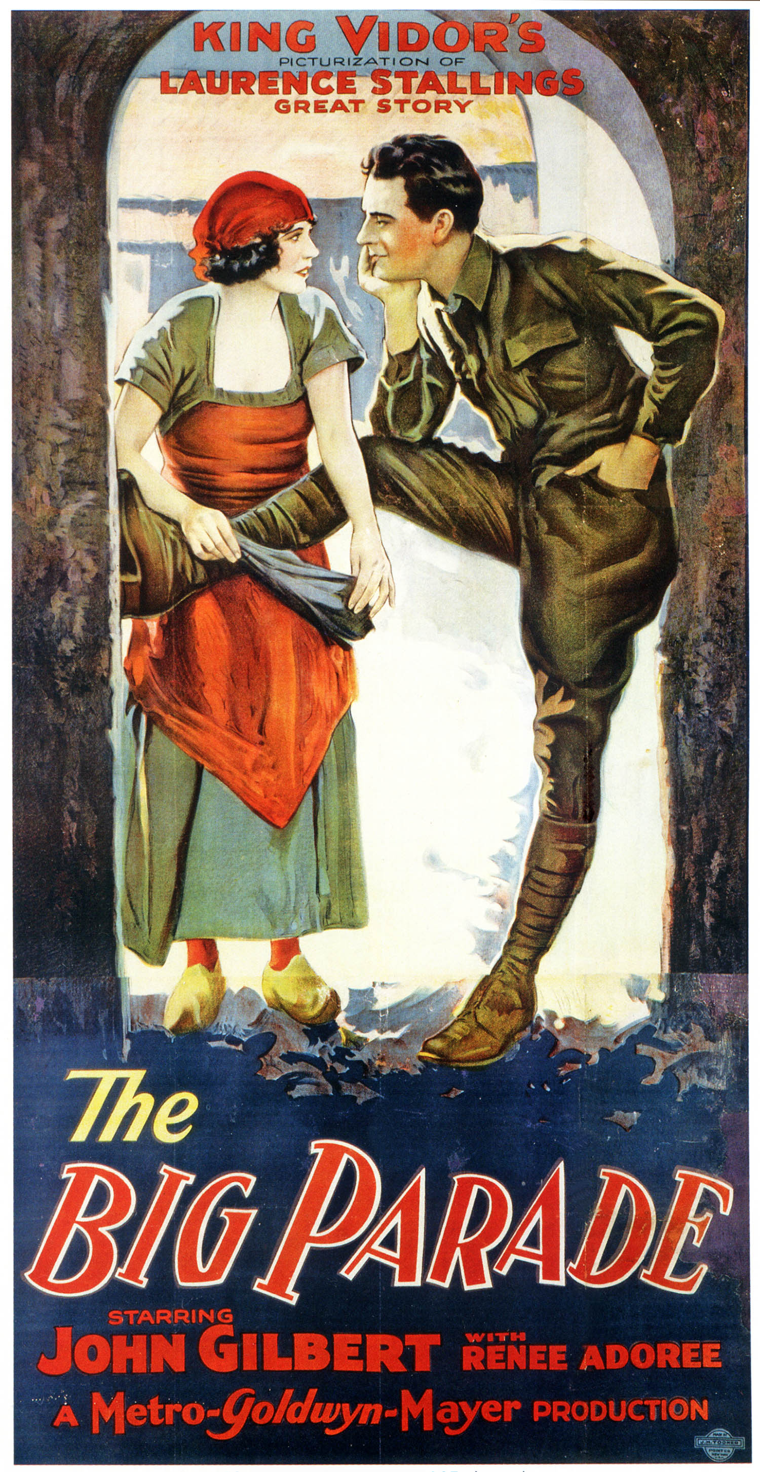 Poster for the 1925 film The Big Parade starring John Gilbert and Renée Adorée.